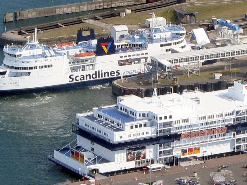 Puttgarden on Fehmarn, seen from a sightseeing-airplane